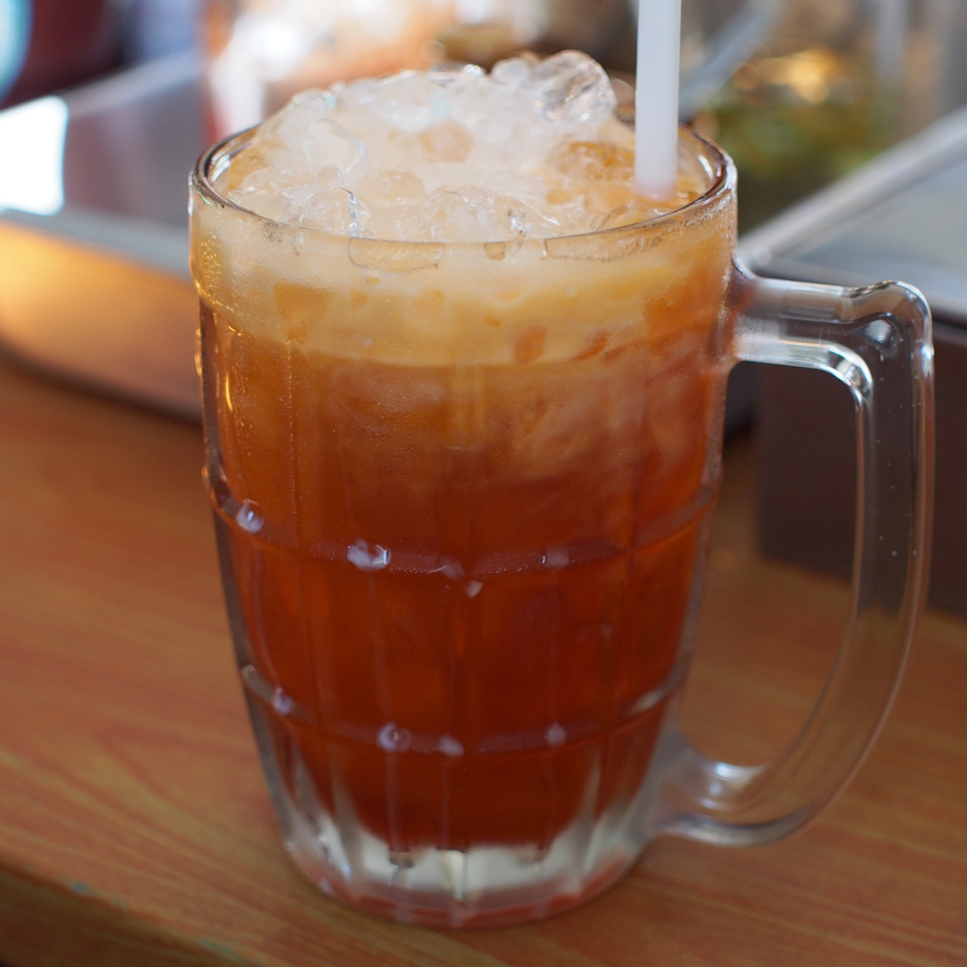 Cha yen (Thai script: ชาเย็น, lit. "cold tea") as served at a noodle shop in Chiang Mai. The tea is spiced and mixed with sweetened, condensed milk.